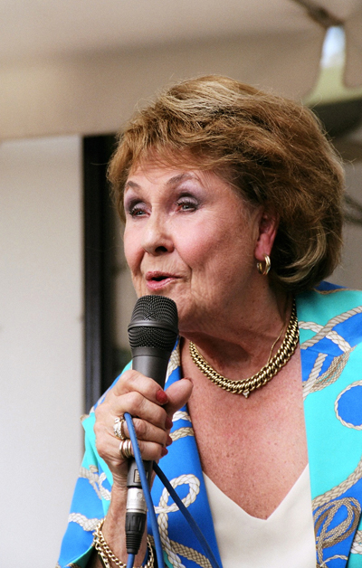 Rita Reys - Europe's First Lady of Jazz